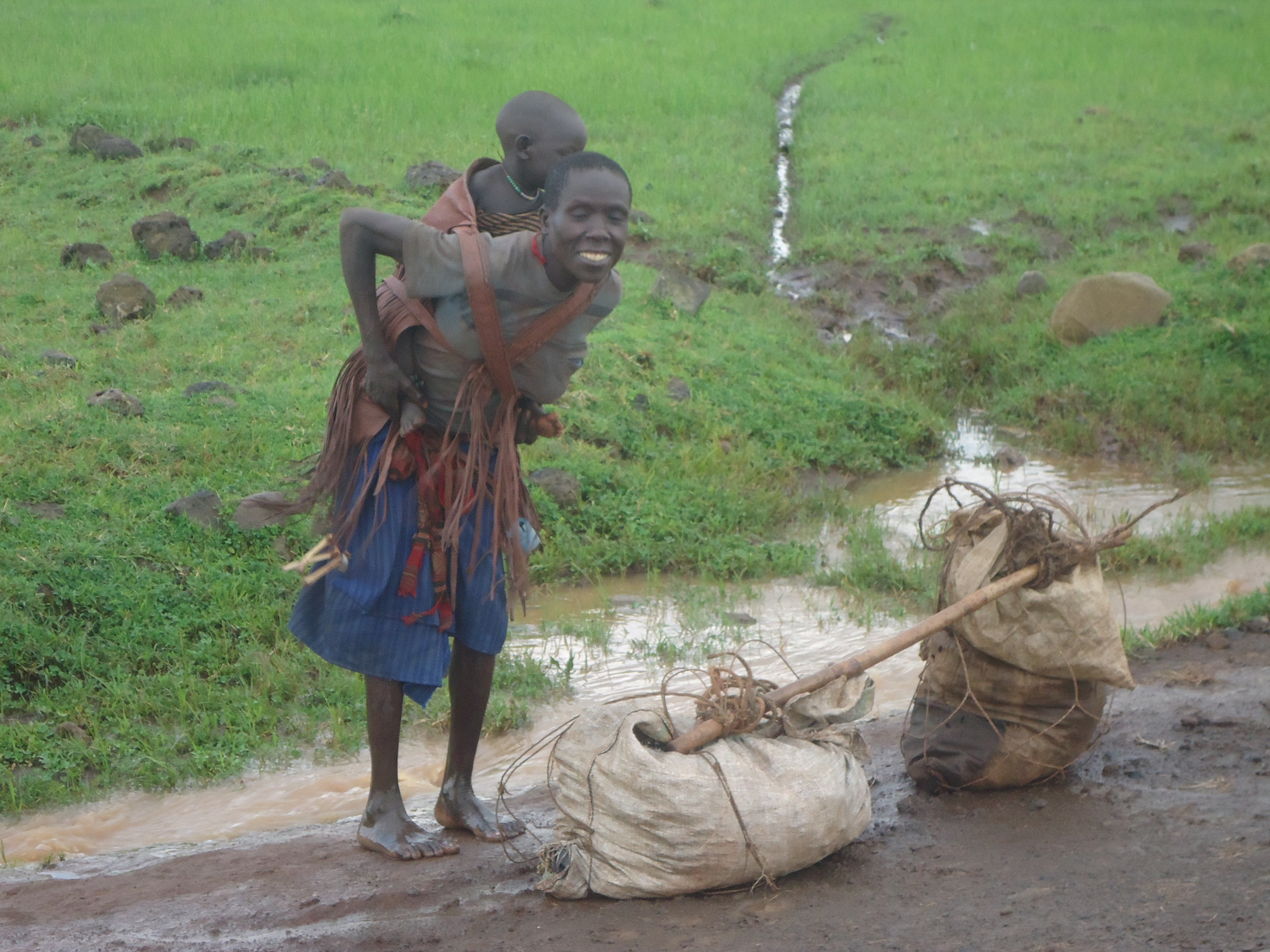 An Ethiopian woman from a tribe called Gumuz, situated at Northwest of the country. she caries her baby and also the object in front of her for transportation to market and home. This is an image of "African people at work" from Ethiopia